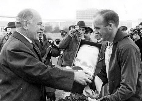 Öberg gets Guldbollen (1962)